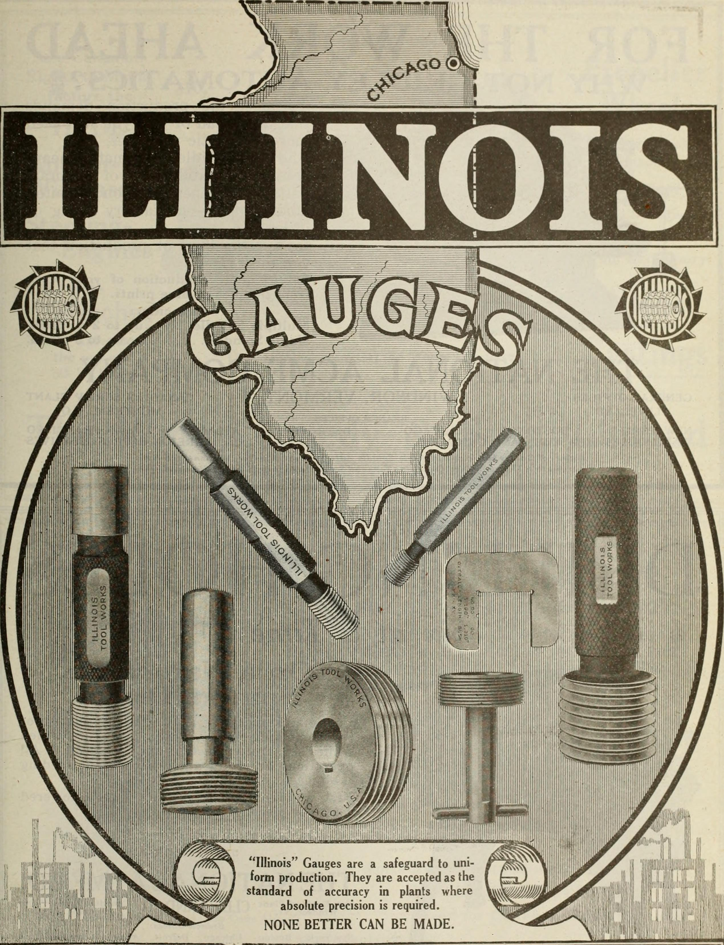 Title: Canadian machinery and metalworking (January-June 1919) Year: 1919 (1910s) Authors: Subjects: Machinery Machinery Machinery Publisher: Toronto MacLean-Hunter Text Appearing Before Image: PromptDelivery Theyre the happy result of a great combination of specially trainedmen and the finest special machinery—these Butterfield carbon andhigh-speed steel Twist Drills, Gear and Milling Cutters, Side Mills andEnd Mills, with straight or spiral flutes and plain or nickeled teeth.Their ability to serve accurately and long equals that of ButterfieldTaps, Dies and Reamers — the sincere praise of a thousand userswouldnt be a better recommendation. The Butterfield Catalog, just off the press, fully describes these bettertools and how they increase production. Write for your copy. Butterfield & Company, Inc. Rock Island, Quebec Toronto Office : 220 King Street West // what you need is not advertised, consult our Buyers Directory and write advertisers Hated under proper heading. January 2, 1919 C.\ N ADI AN MAC II I N E R Y 115 Text Appearing After Image: ■■ . ■ ■ Miilillliilll.llll 11 Mi ILLINOIS TOOLWORKS, CHICAGO,US.A Detroit Store, 997 Woodward Avenue. Represented by Lewis G. Henes, Monadnock Building, San Francisco, and Title Insurance Building, Los Angeles. 116 CANADIAN M A C III N E K Y Volume XXI FOR THE WORK AHEAD WHY NOT GRIDLEY AUTOMATICS?! To meet the production demands that are ahead of you, you will need more automatic machines. The use of Gridley Automatics means continuous production of accurate parts—less dependence on a limited labor supply—satisfactory filling of orders. Isnt it the kind of production that you desire? Let us quote production of your workfrom samples or blue prints.Capacities: Multiple Spindle up to 2% diam. Single Spindle up to 5 diam. THE NATIONAL ACME COMPANY